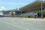 Quirino Grandstand. Quirino Grandstand is where most inaugurations happen.